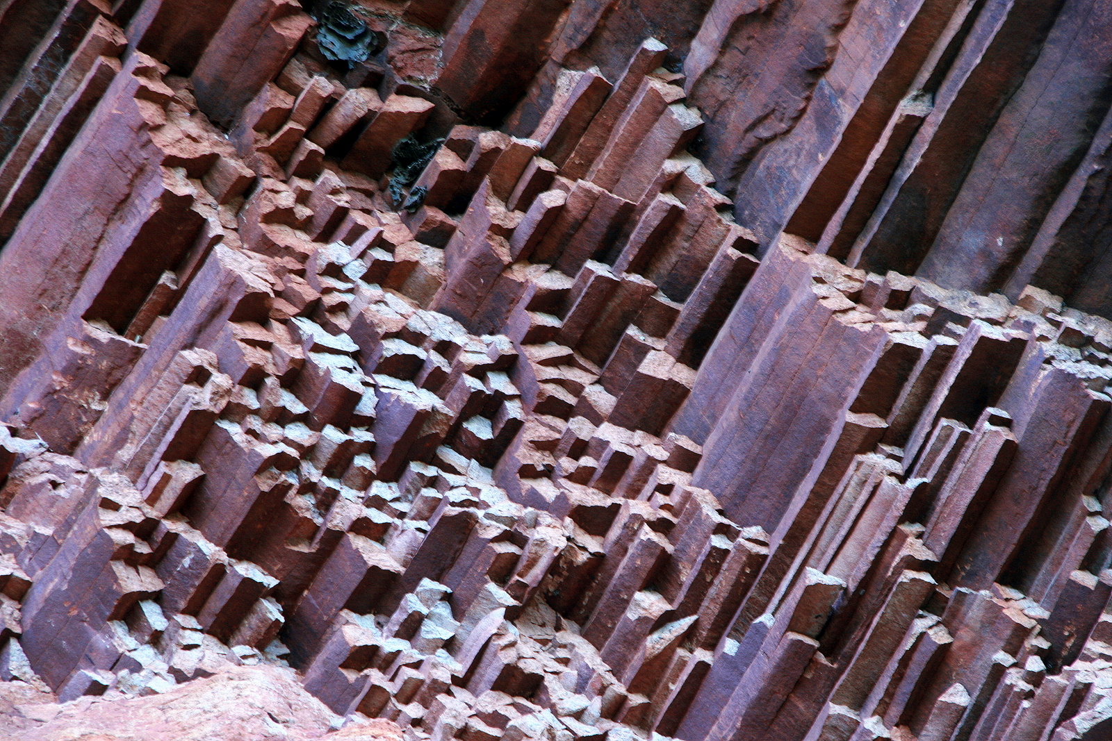 Cerro Koi sandstone rock formations outside Areguá, Paraguay